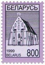 Stamp of Belarus